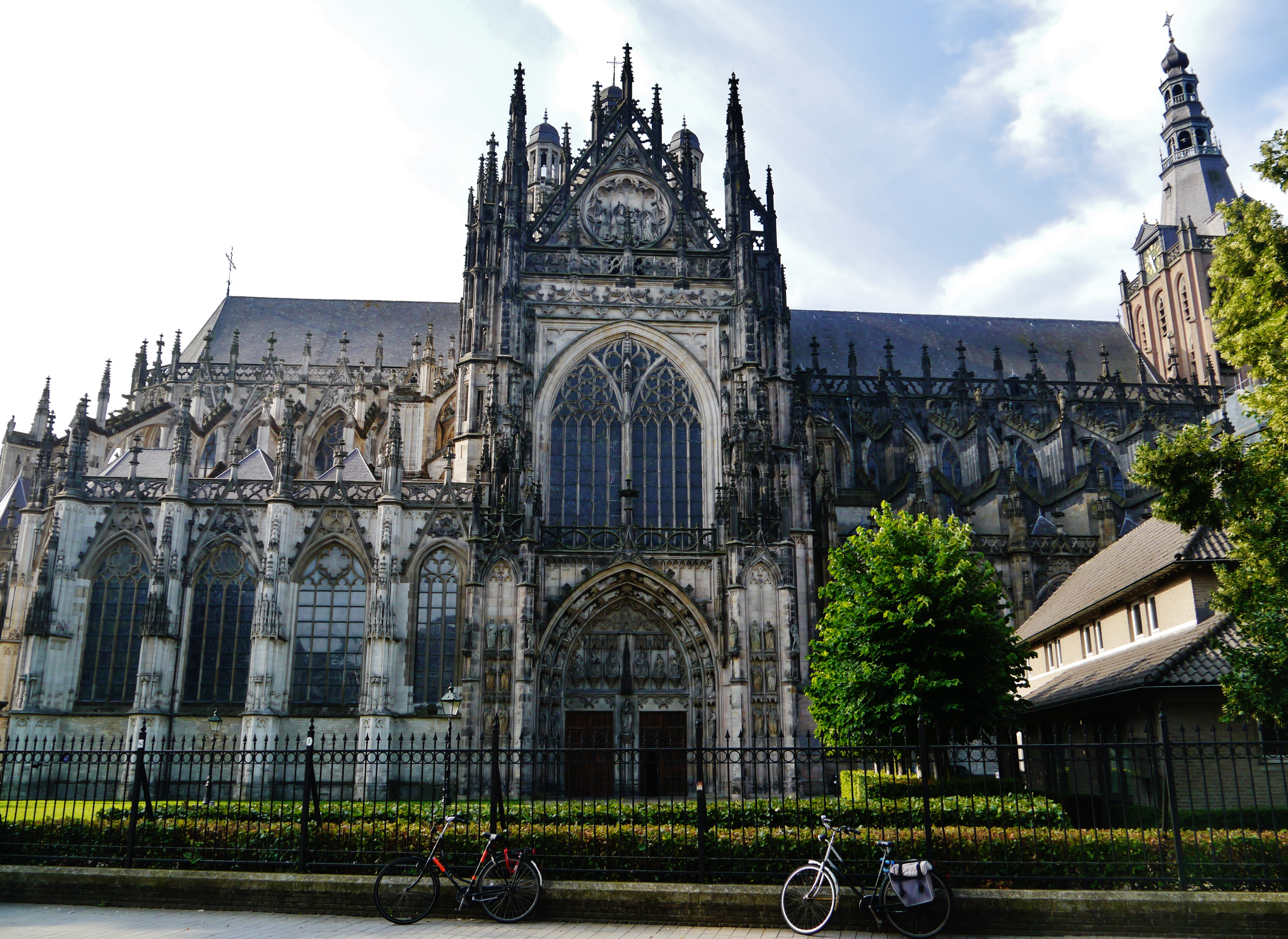 Cathedral St. John, 's-Hertogenbosch, Province of North Brabant, Netherlands